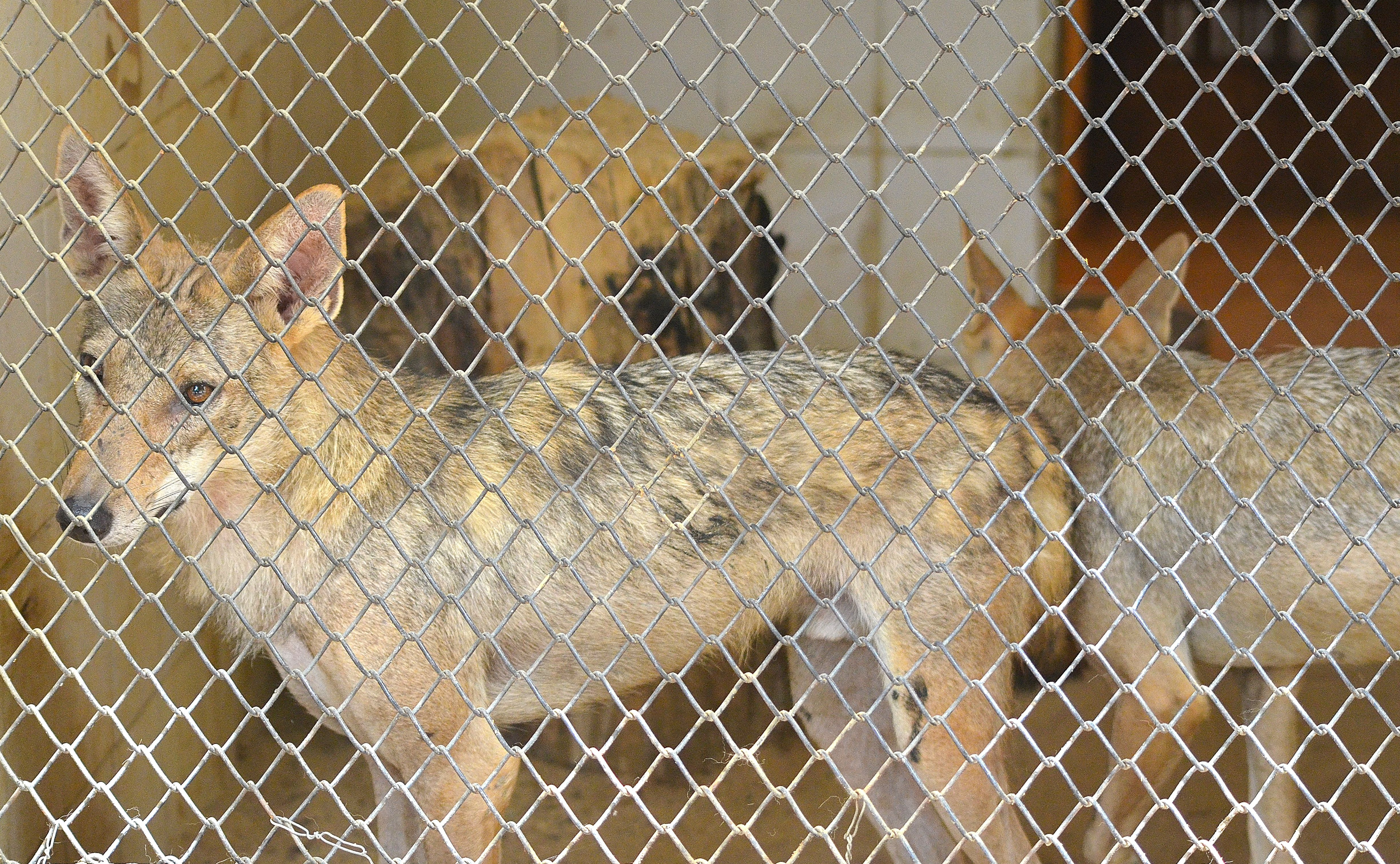 Canis lupus lupaster